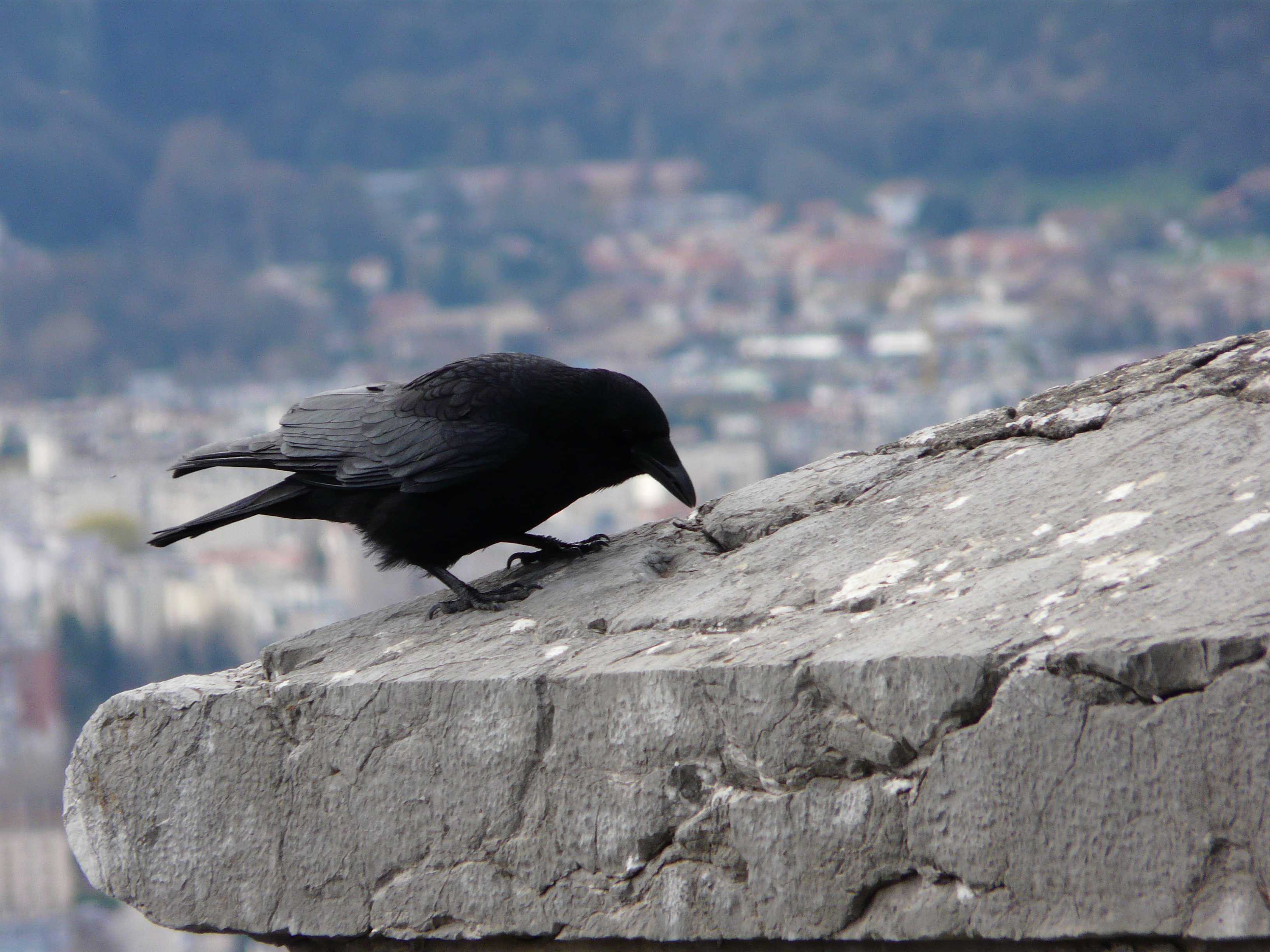 Carrion Crow Corvus corone on the Bastille (Grenoble)